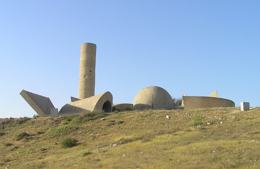 "Monument to the Negev Brigade" by Dani Karavan photographed by Eman, April 2006